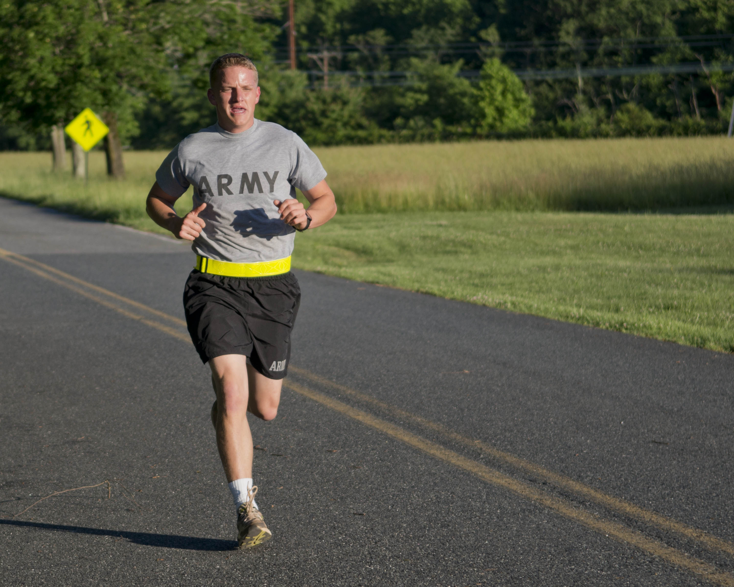 The Performance Triad is a 3-pronged plan that everyone can use to improve his or her health. The Performance Triad goals are to promote adequate sleep, activity and nutrition. p3.amedd.army.mil/